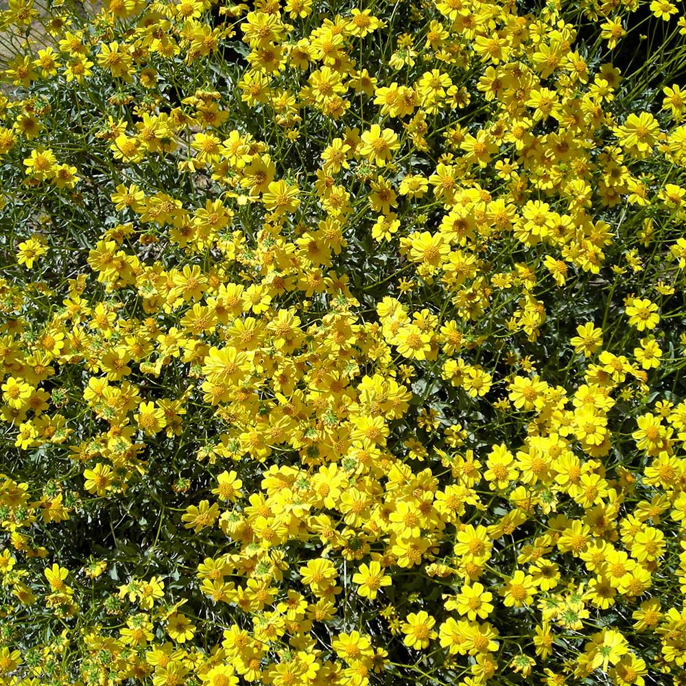 If you venture into the canyon below the Tonto Platform, you will find brittlebush (Encelia farinosa) nestled into the cliffs and slopes. In April the plants have yellow flowers are are numerous, providing food for wildlife like bighorn sheep. Brittlebush gets its name from the stems of these flowers, which break easily. Brittlebush may be fragile, but it can rebound with any quick and steady rain.